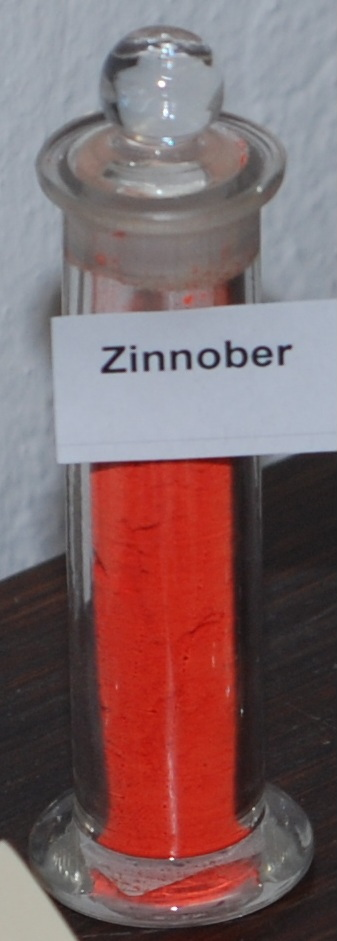 Cinnabar (HgS), historical dye collection, Technical University of Dresden, Germany